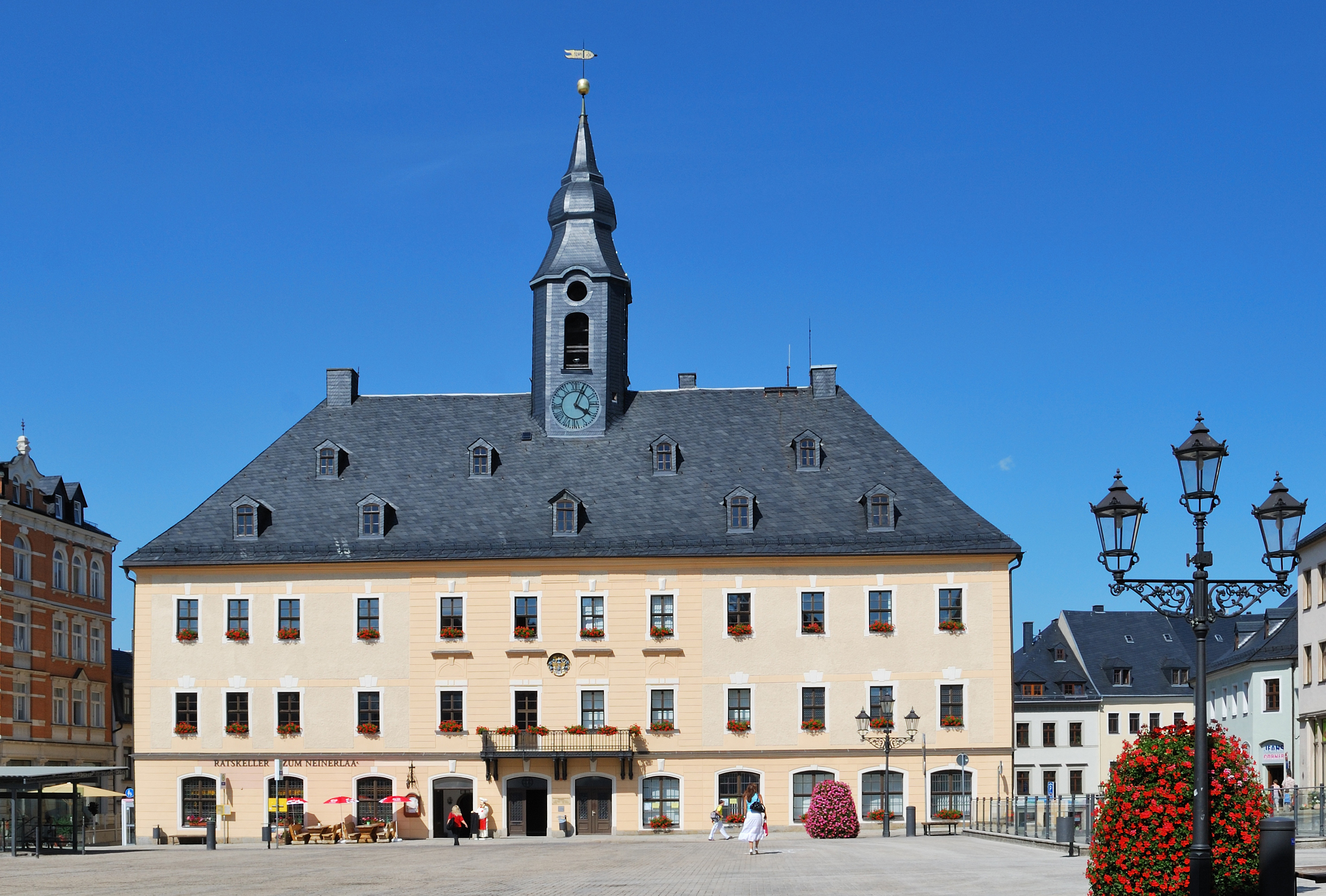 The town hall in Annaberg-Buchholz